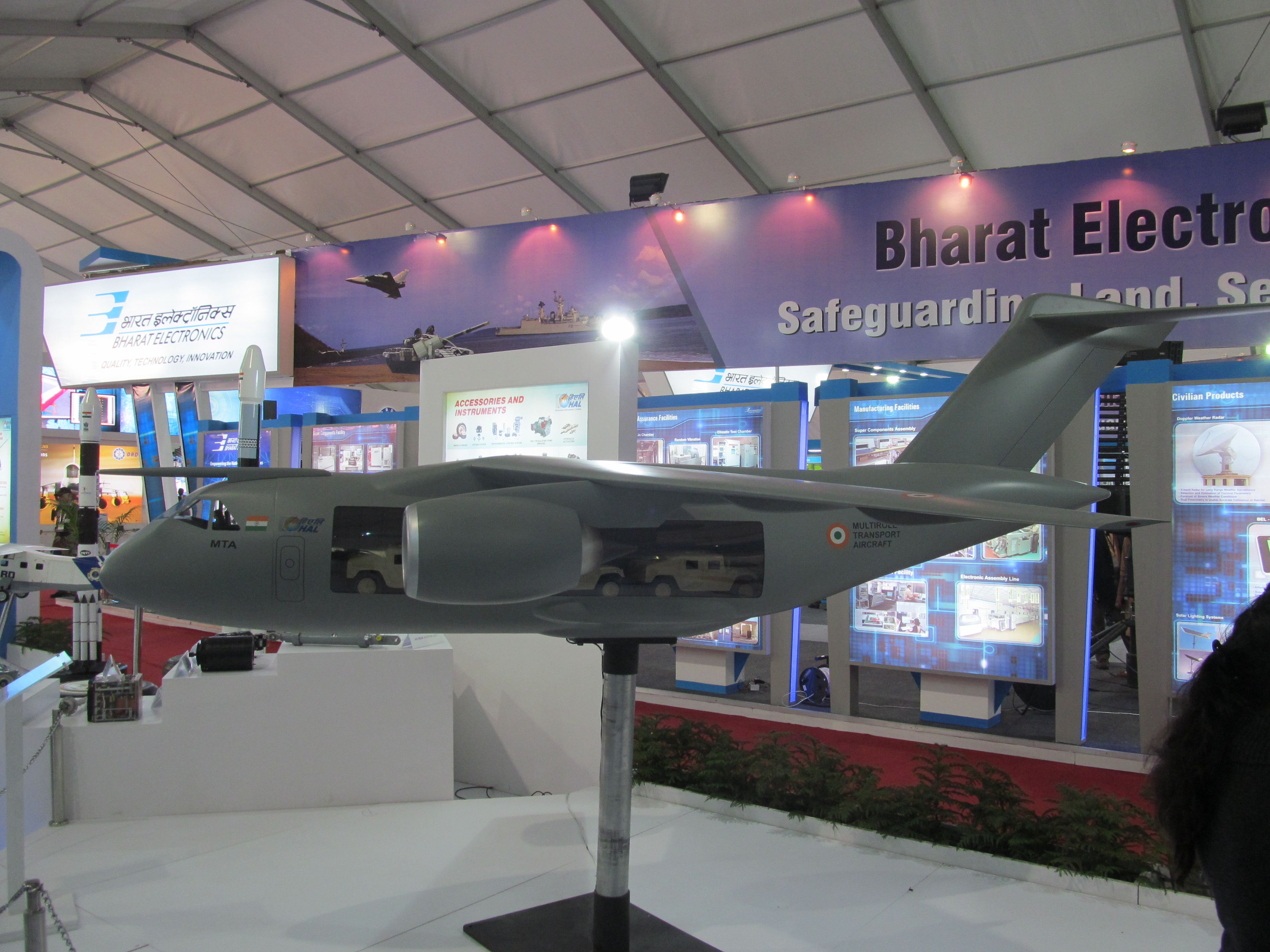 UAC/HAL Il-214 Multirole Transport Aircraft (MTA) model, during DefExpo 2014, New Delhi.